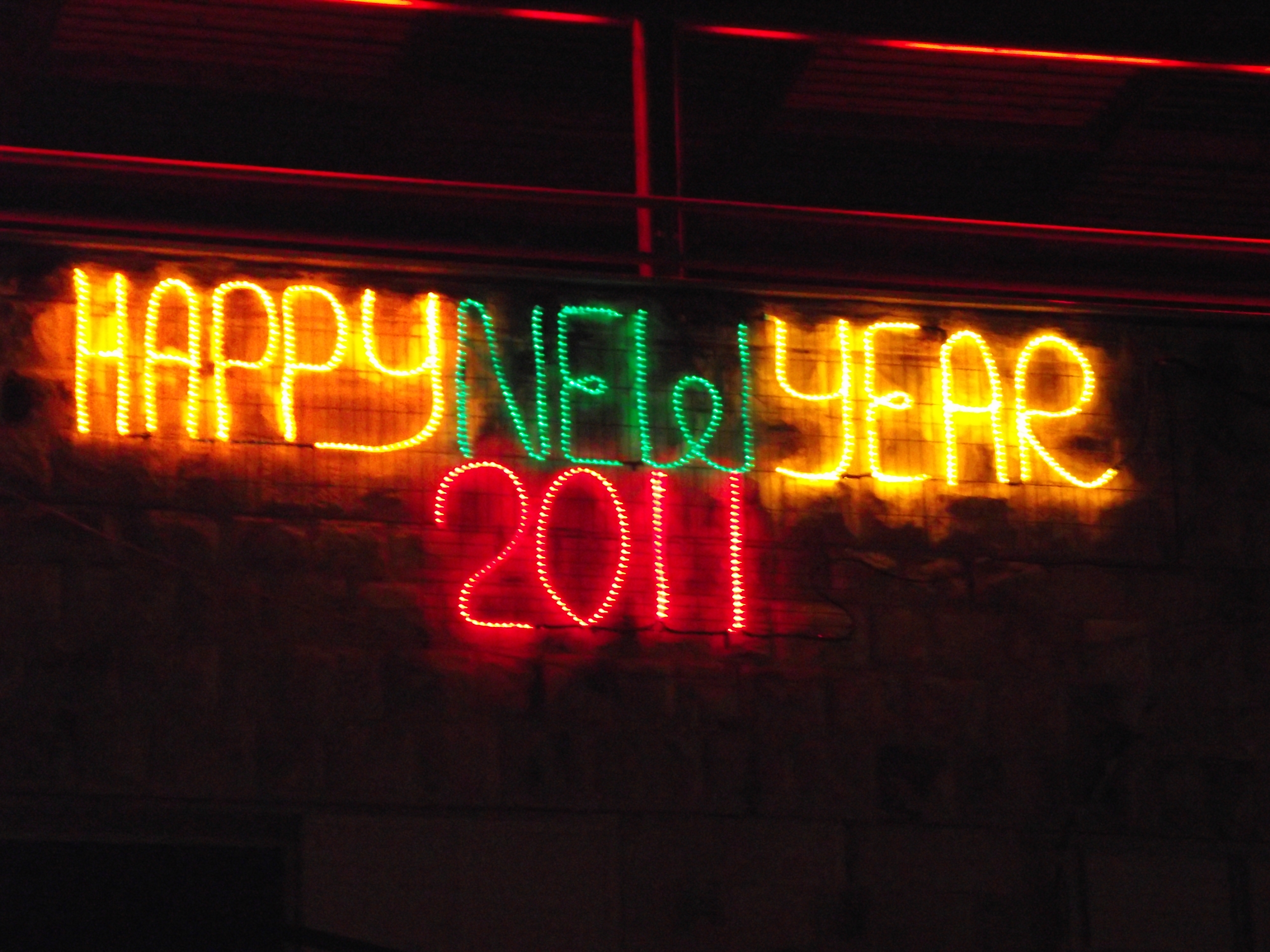 Picture taken in German Colony, Haifa, 2010